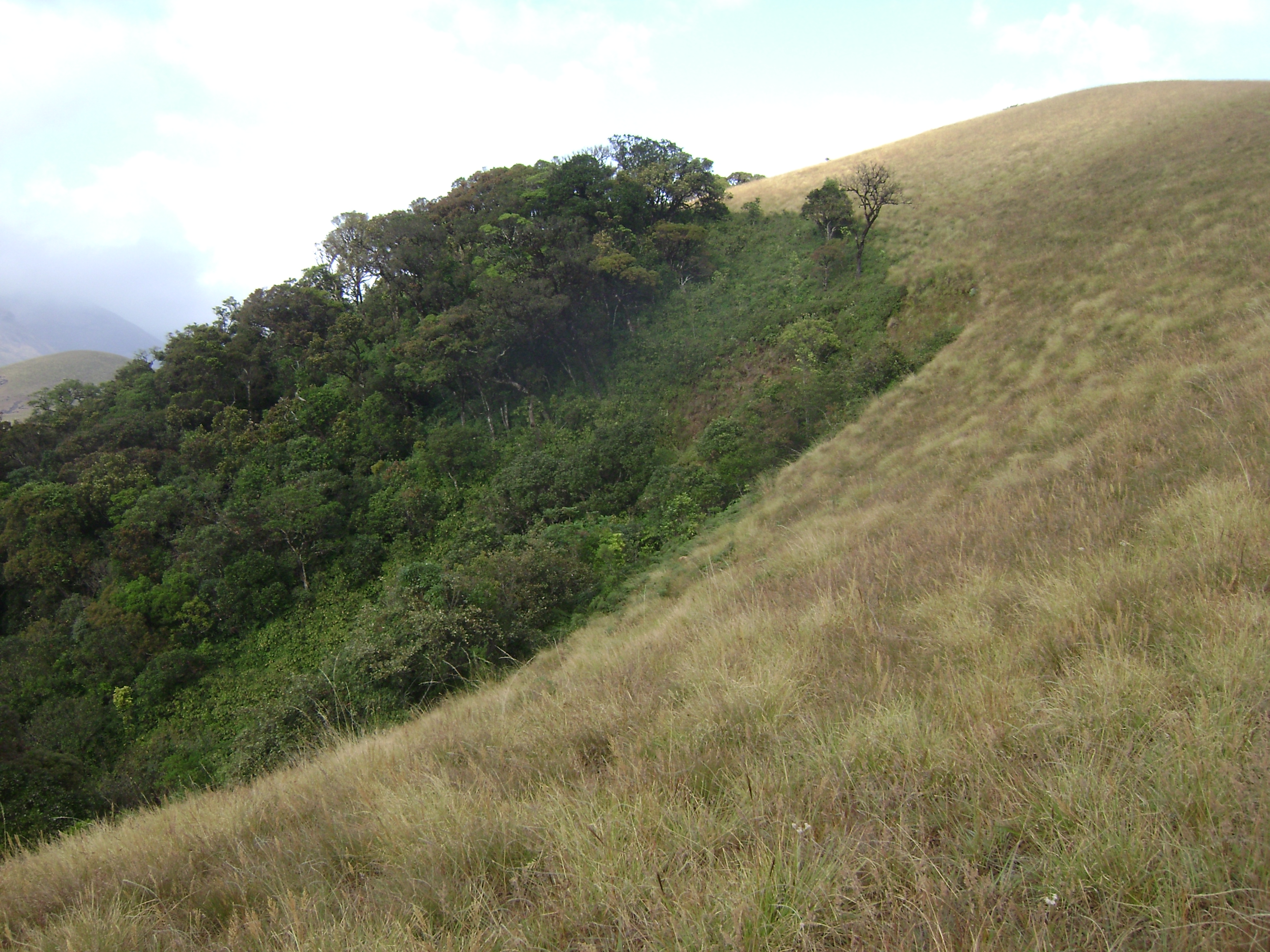 Grassland/shola complex at Grass Hills, Indira Gandhi National Park